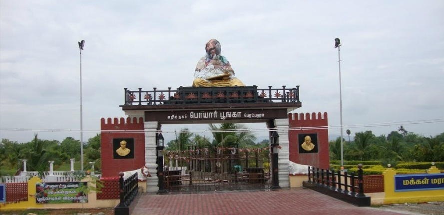 Periyar Park at Perambalur